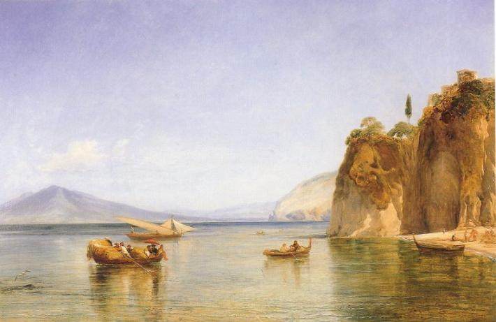 Scenes from the caves of Ulysses at Sorrento (oil on canvas)